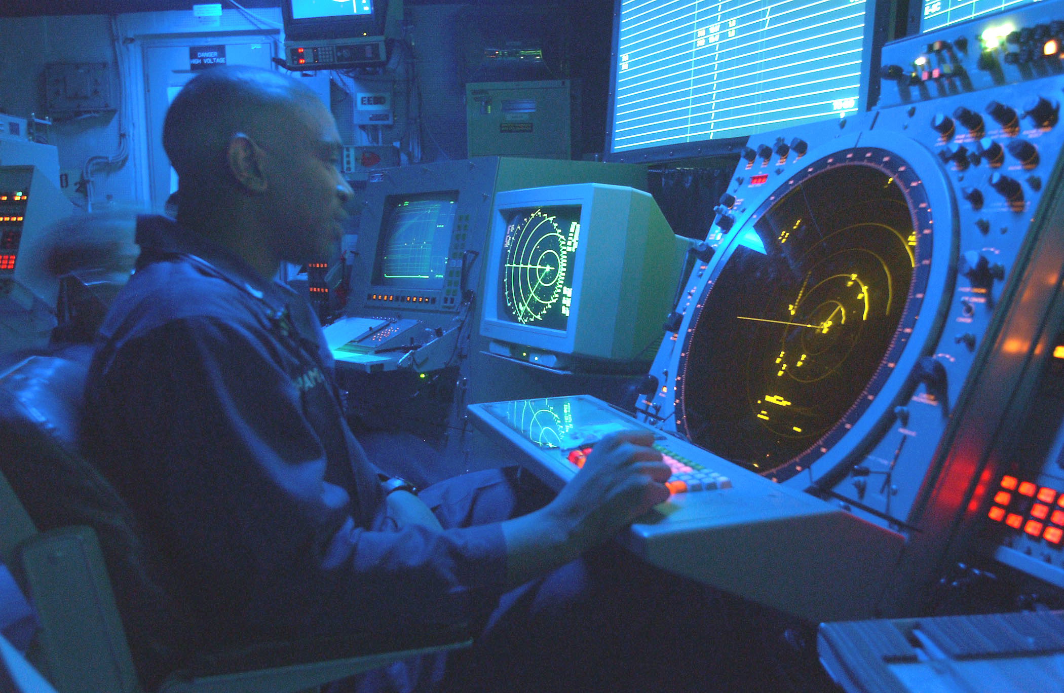 A U.S. Navy air traffic controller watches his radar scope where he works as an Aircraft Approach Controller in the Carrier Air Traffic Control Center on board the USS Theodore Roosevelt (CVN-71). The aircraft carrier is operating in support of Operation Enduring Freedom.